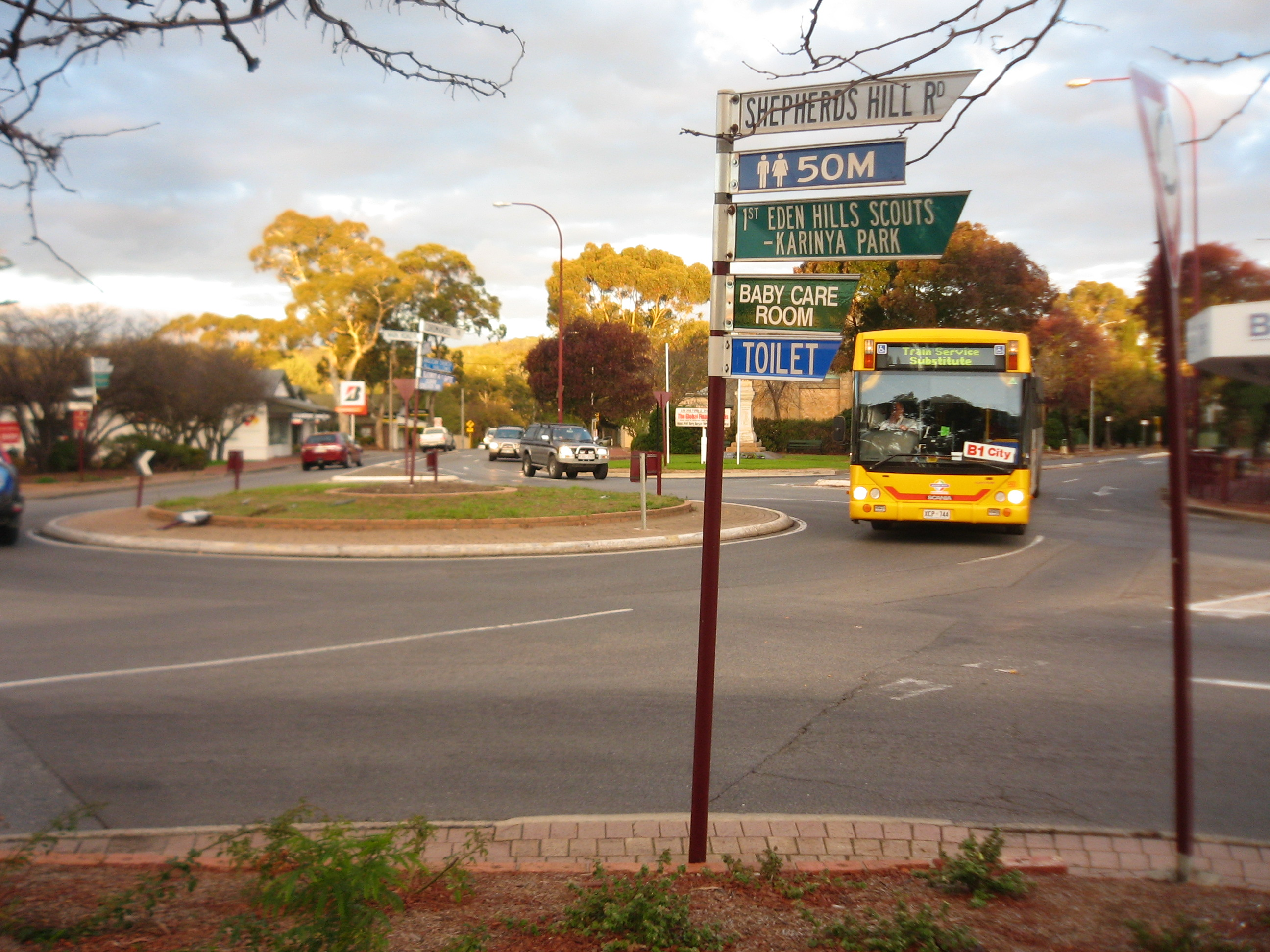 Blackwood roundabout, South Australia, showing B1 bus - substitute for Belair-City train service while railway line is being re-sleepered